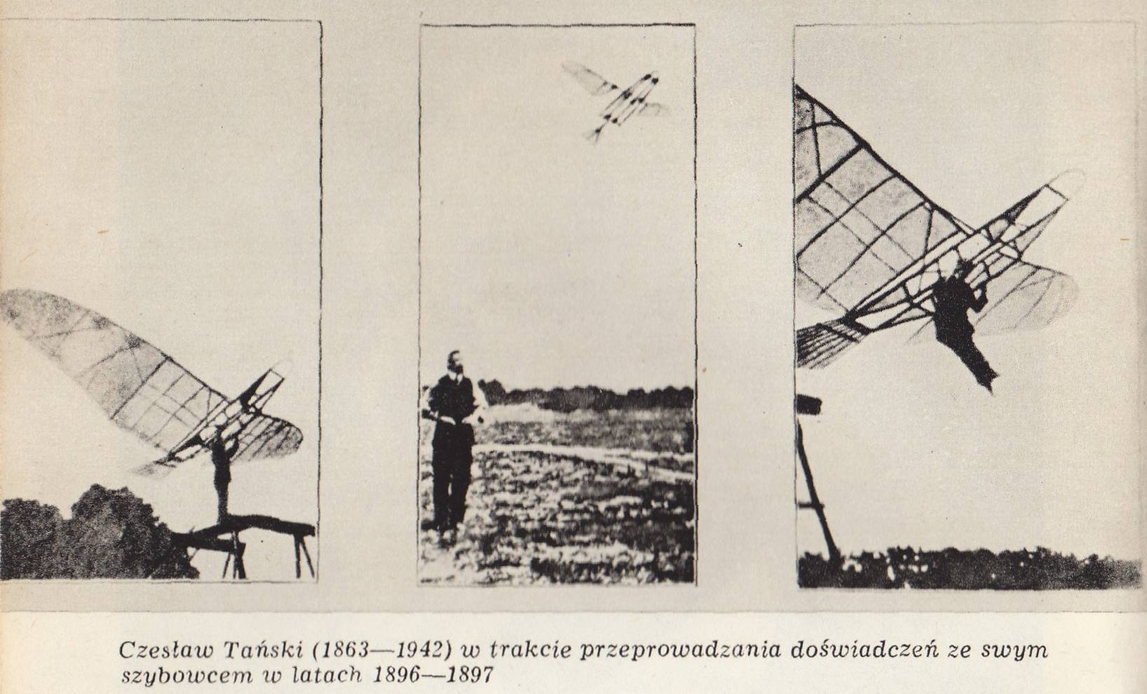 Czesław Tański during his test-flights of selfconstructed glider